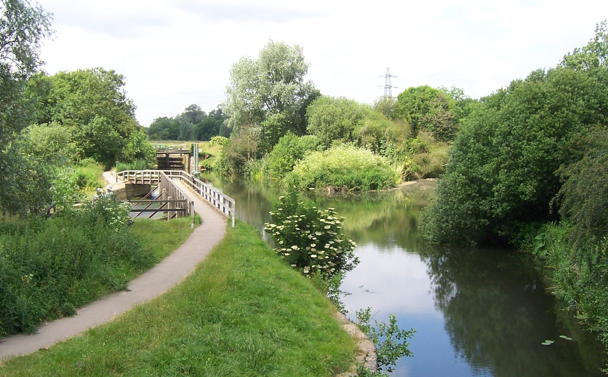 Lock on the Chelmer and Blackwater Navigation - weir to tidal Blackwater on the left